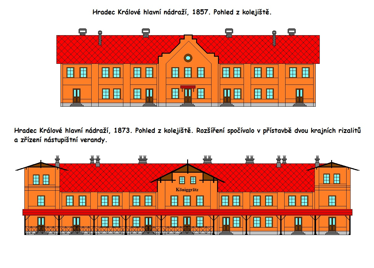 The nonexistent railway station in Hradec Králové. Built in 1857, 1871. Was found at the same place, what the present station Hradec Králové hlavní nádraží.